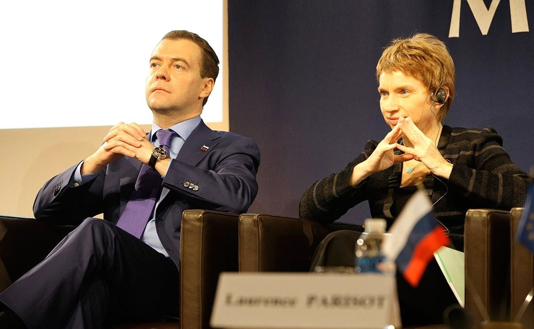 PARIS. At meeting with representatives of Russian and French business circles. With Laurence Parisot, to head of the Movement of French Enterprises (MEDEF).